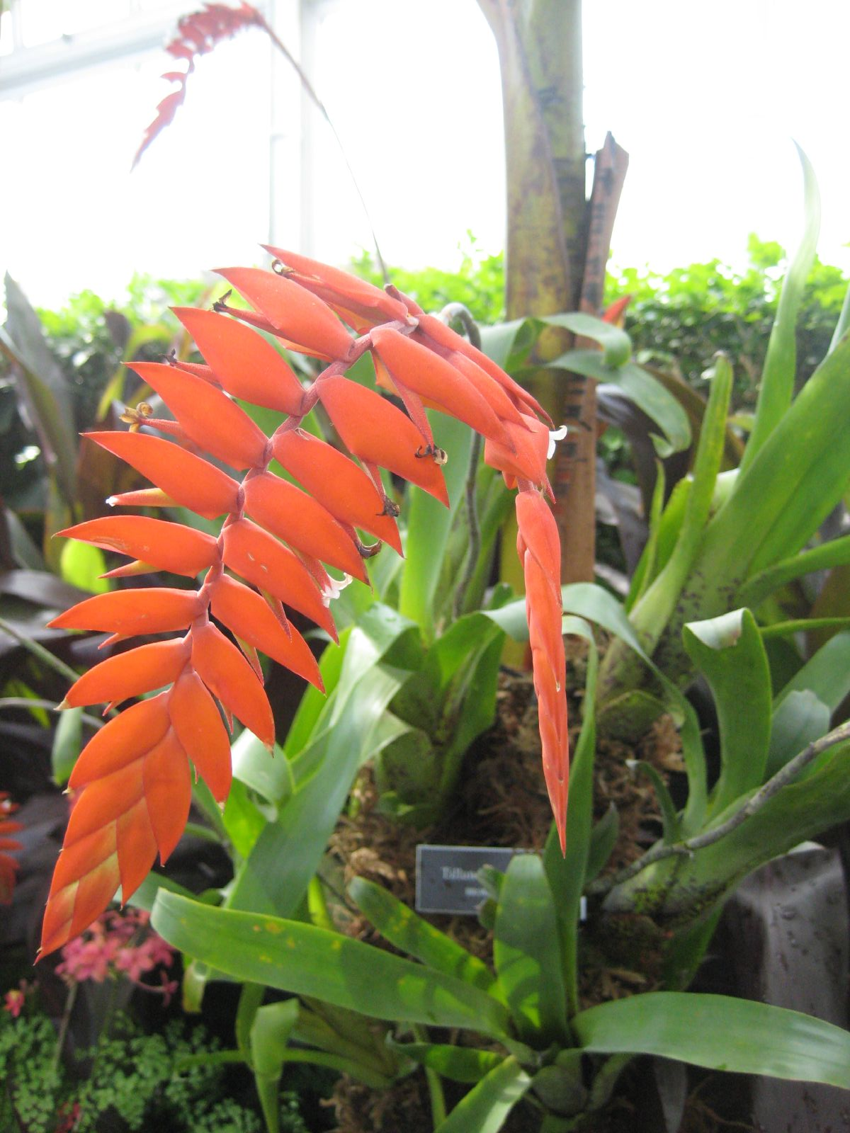 Tillandsia dyeriana, New York Botanical Gardens